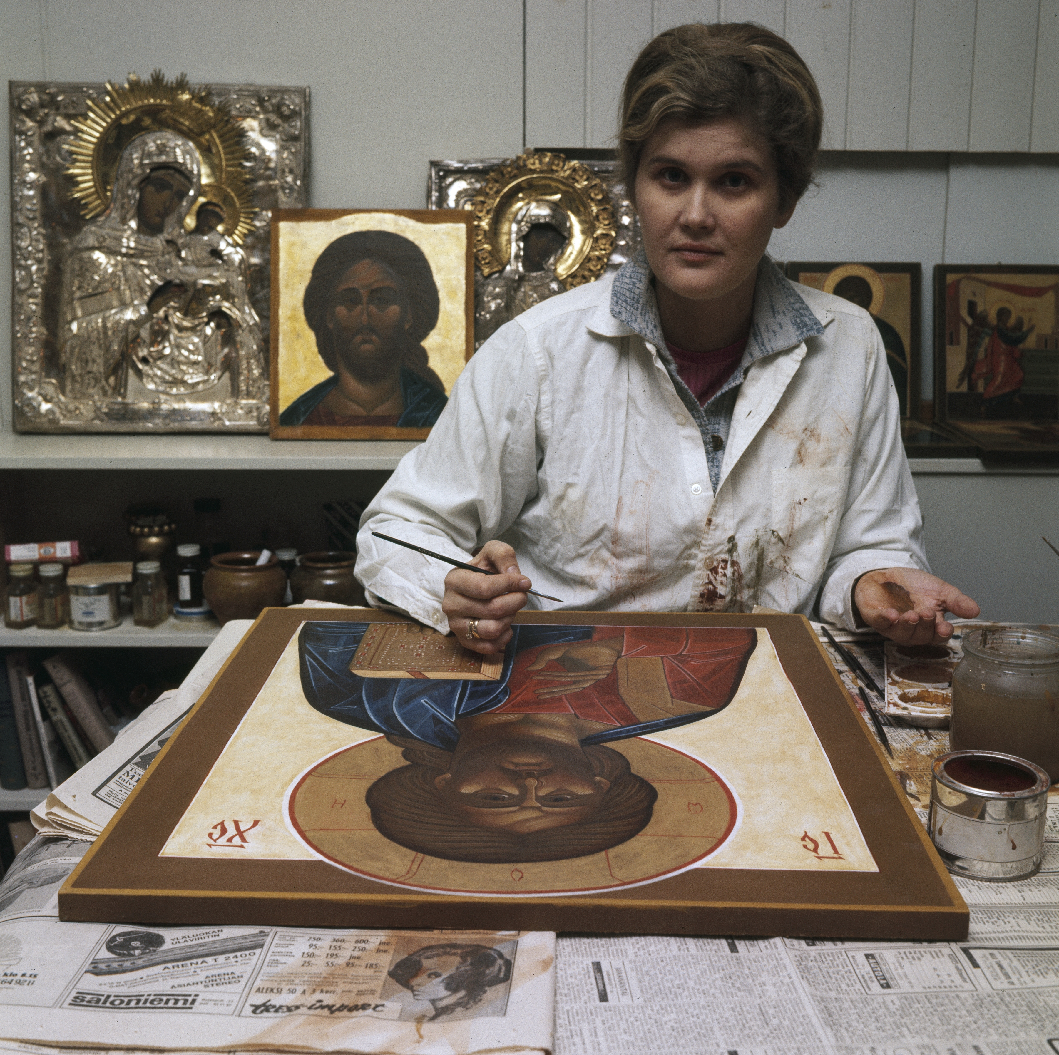 Photograph of the Finnish teacher and icon painter Marianna Flinckenberg-Gluschkoff (1940–).